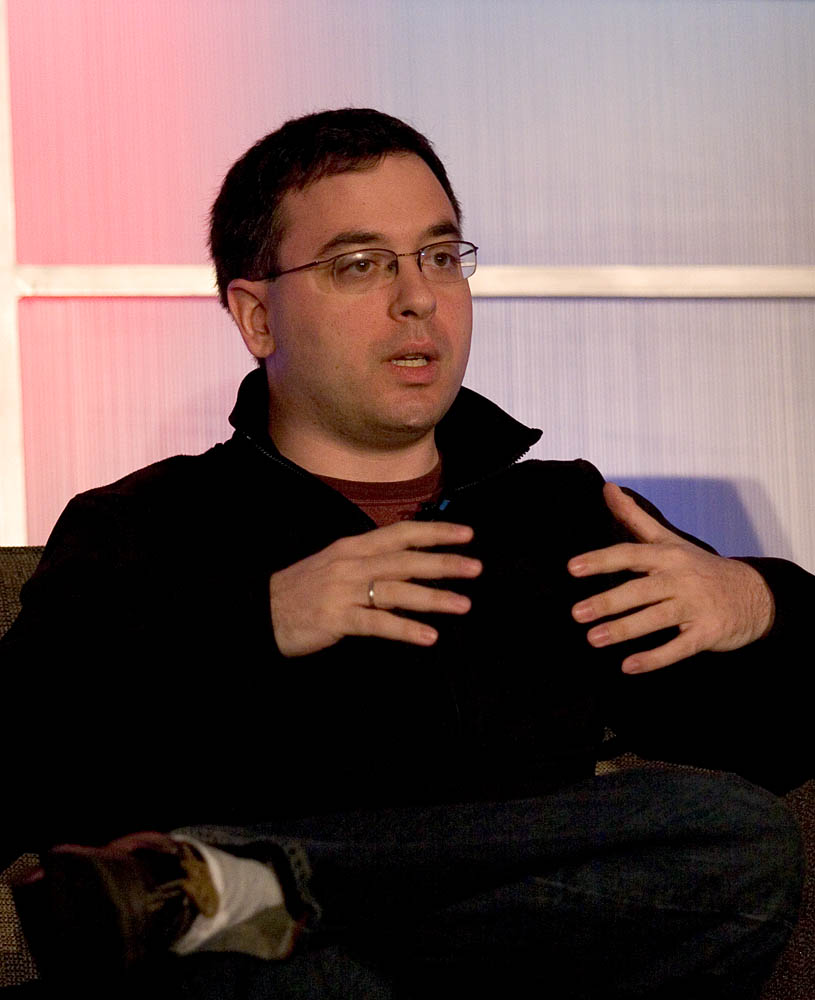 Joshua Schacter on the Folksonomy panel. This photograph was taken during the 2005 O'Reilly Emerging Technology Conference in San Diego, California at the Westin Horton Plaza Hotel.